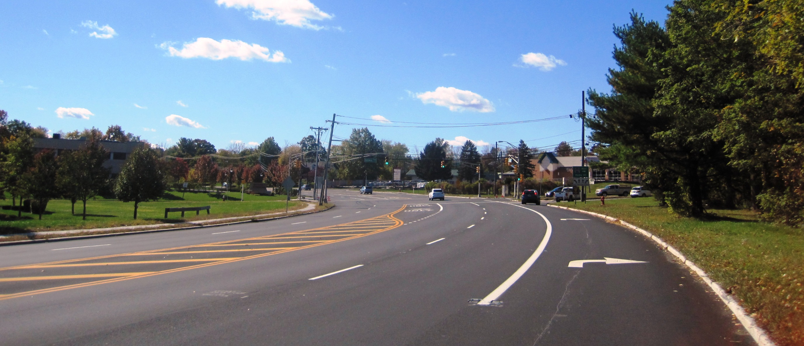 Photo of Ten Mile Run, New Jersey, a census-designated place within Franklin Township, Somerset County (also on the border of South Brunswick, Middlesex County). Photo taken along southbound New Jersey Route 27 at County Route 518.